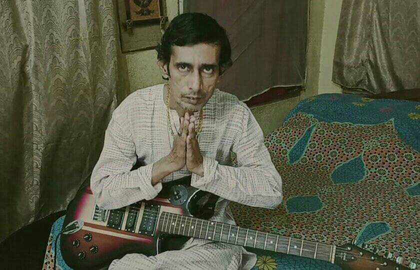 Pandit Soumendu Lahiri, Guitarist